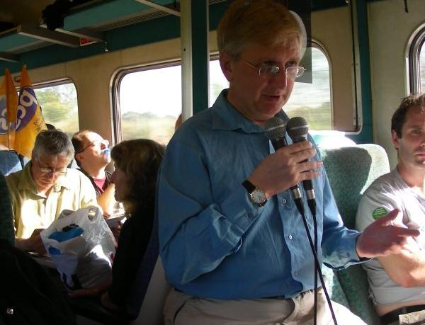 Craig Murray delivers an address on September 23, 2006 aboard a Peace Train on the subject of Afghanistan.